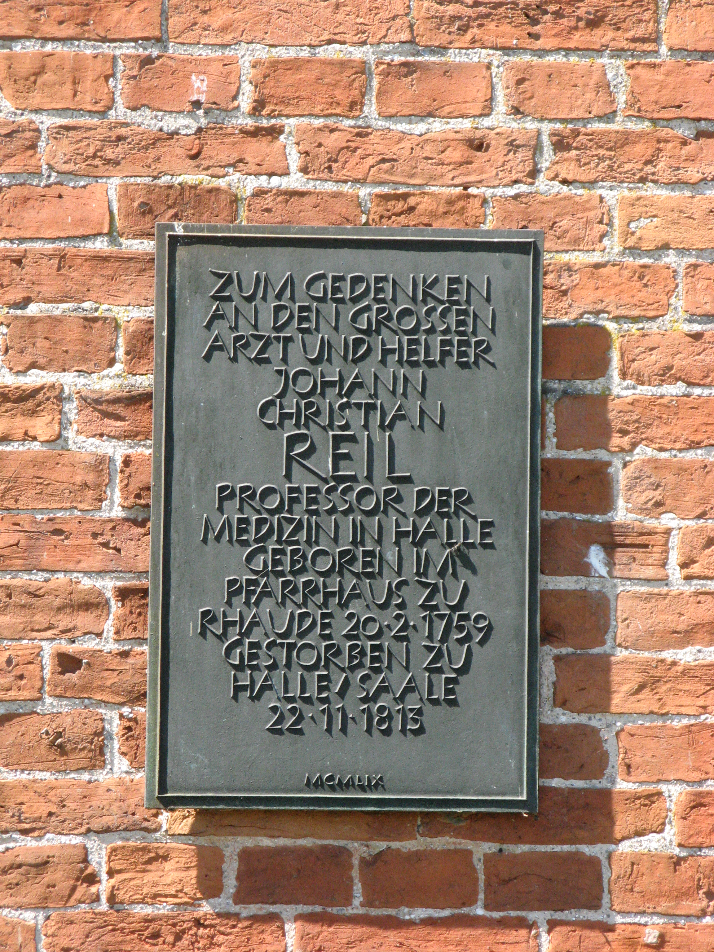 Johann Christian Reil Commemorative Plaque